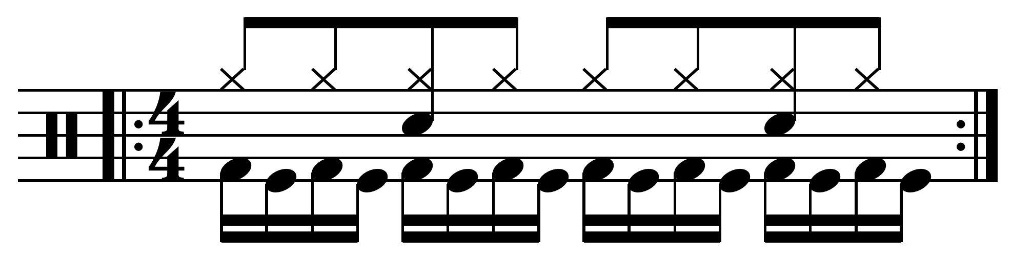 Double bass drum beat based on a standard rock backbeat pattern with a sixteenth note roll. Franco, Joe (1984). Double Bass Drumming, p.3. Alfred Music. ISBN 9781457458828. Weckl, Dave (2004). Exercises for Natural Playing, p.16. Carl Fischer. ISBN 9780825850981. Features quarter note ride rather than eighth. Mattingly, Rick (2006). All About Drums: A Fun and Simple Guide to Playing Drums, unpaginated. Hal Leonard. ISBN 9781476865867. Features quarter note ride rather than eighth. Berengena, Alfred (2005). Essential Double Bass Drumming, p.53. DINSIC. ISBN 9788495055996. Features RRLL or LLRR rather than RLRL or LRLR. Prushko, Jason (2012). 100 Legendary Modern Rock Drumbeats, p.23. Mel Bay. ISBN 9781619112742. Features a quarter note ride, rather than eighth, and a half-time snare pattern.